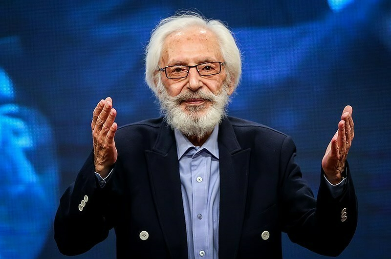 Jamshid Mashayekhi